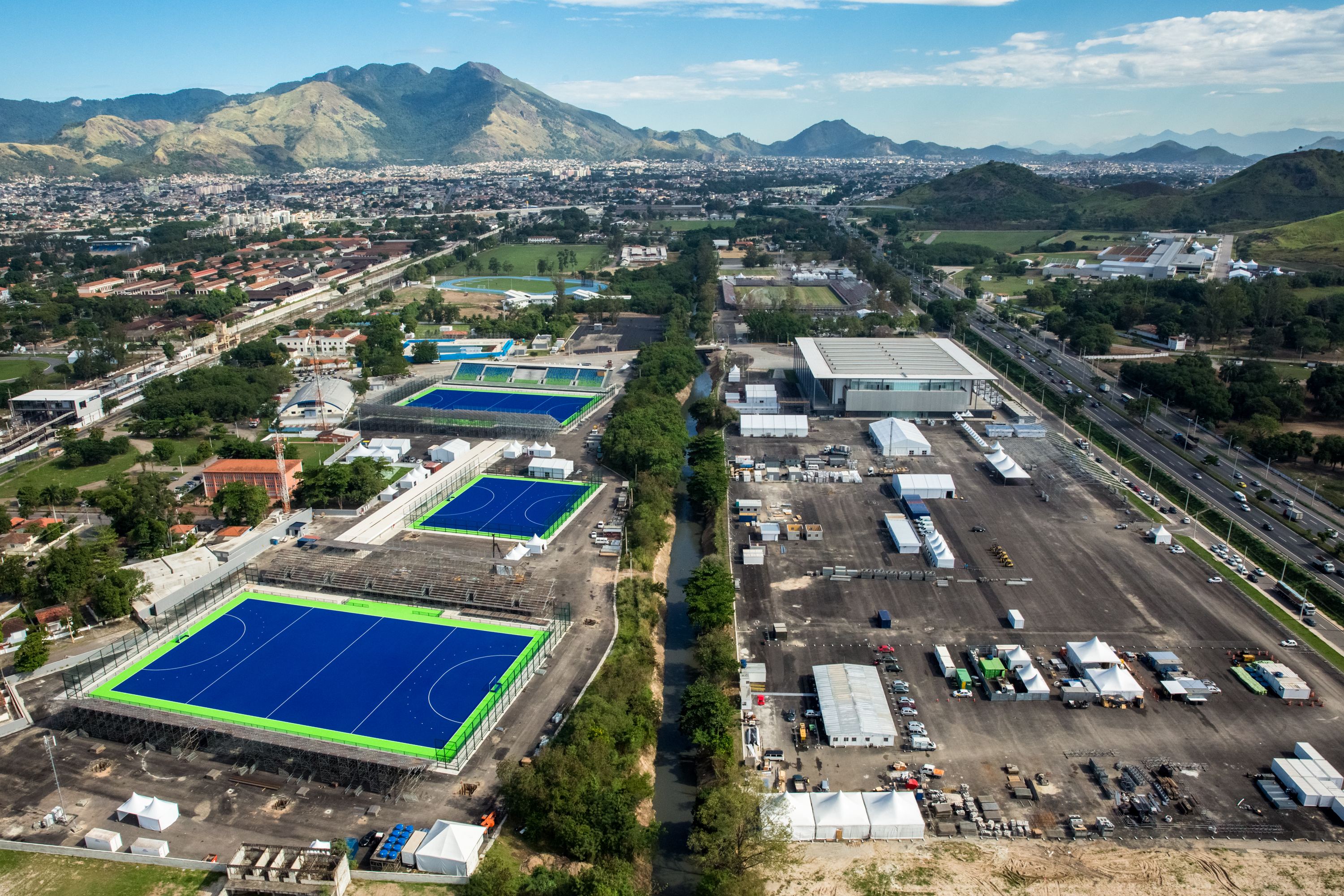 Olympic Park in Rio de Janeiro in the process of construction, photography June 2016.